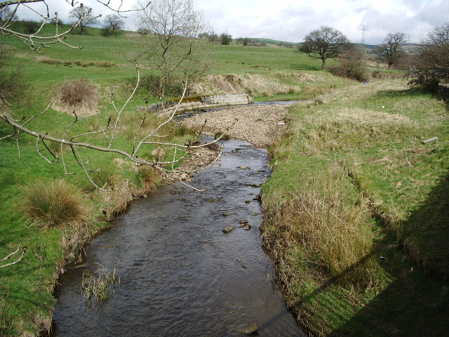 River Don Looking upstream from Cockden Bridge